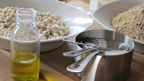 Ben Oil, pressed from the Moringa Oleifera Seed, showing the decorticated seed in the back left and the ground seed cake in the back right.